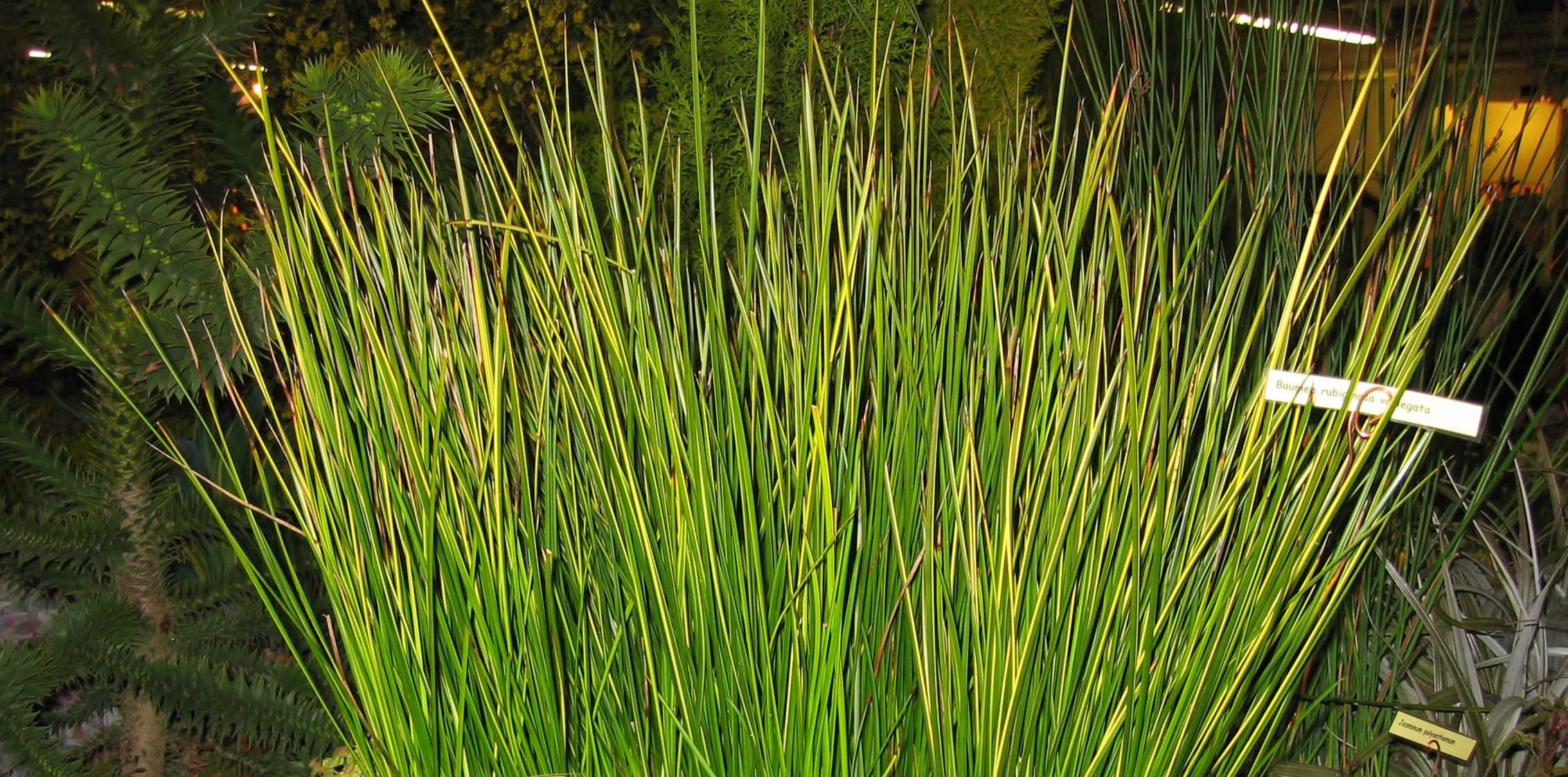 Author: User:Jkelly Description: Baumea rubiginosa or Variegated rush, on display at a garden show. Date: March 24 2006